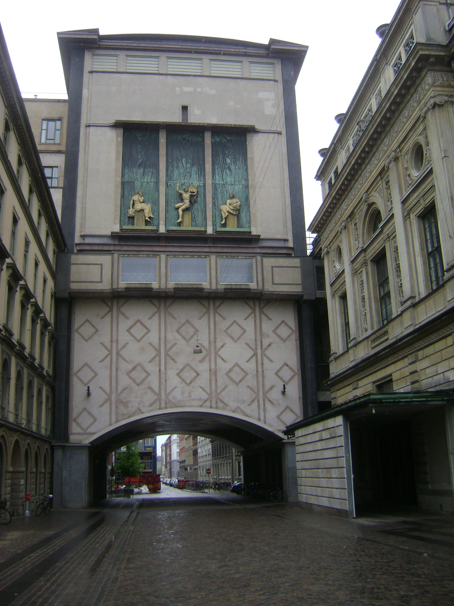 Denmark. Capital Region. Copenhagen